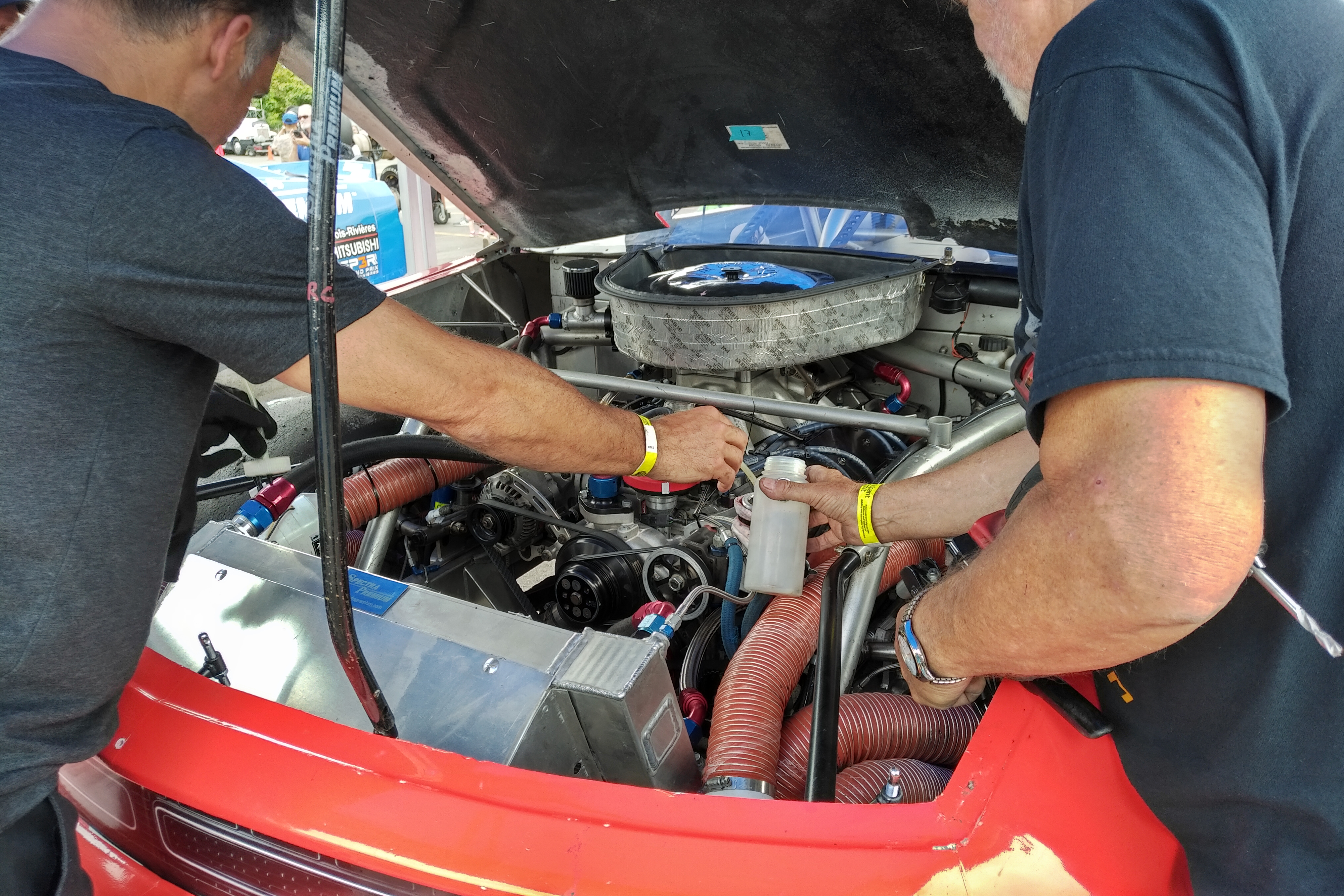 The engine for a NASCAR Pinty's Series Dodge Challenger, circa 2019.